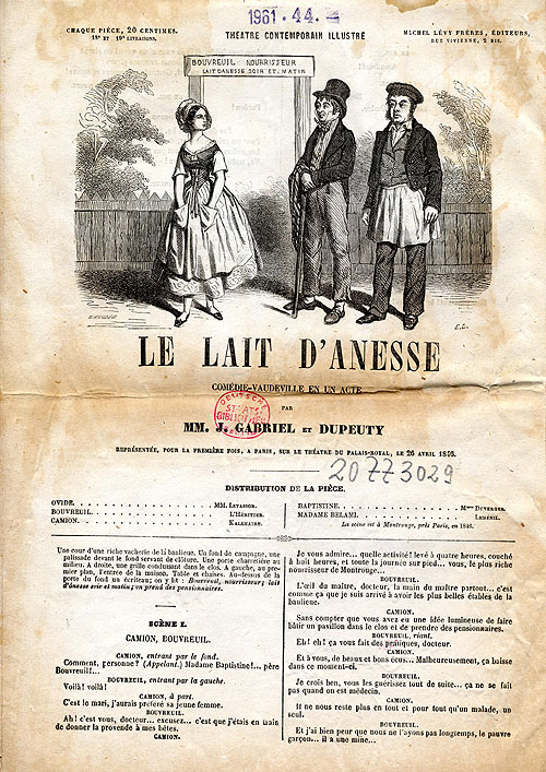 Historic play-bill for the comedy "Le Lait d´Anesse", Paris, about 1850.